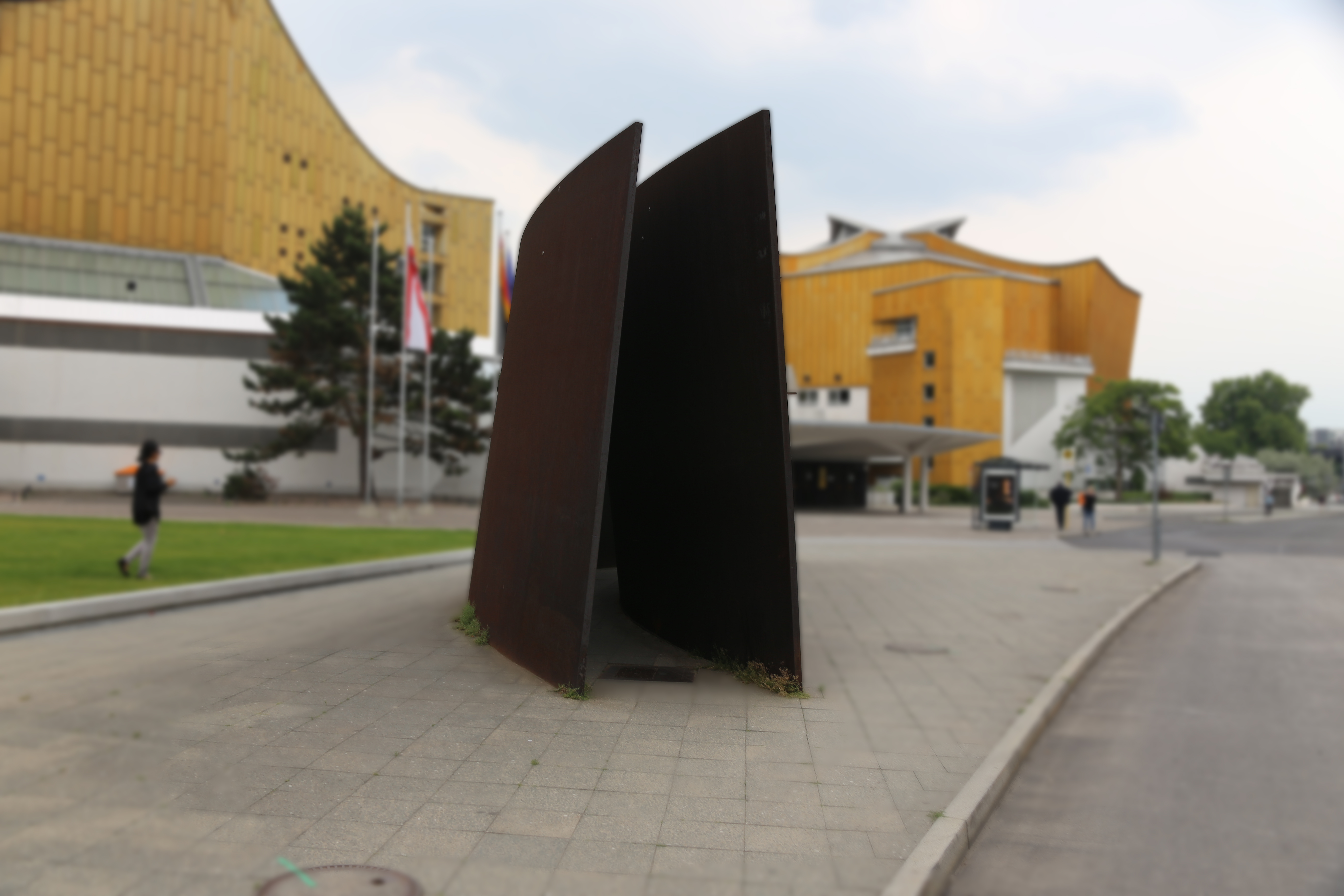 Monument to the victims of the Nazi T4 extermination program at the site of the Berlin T4 headquarters.